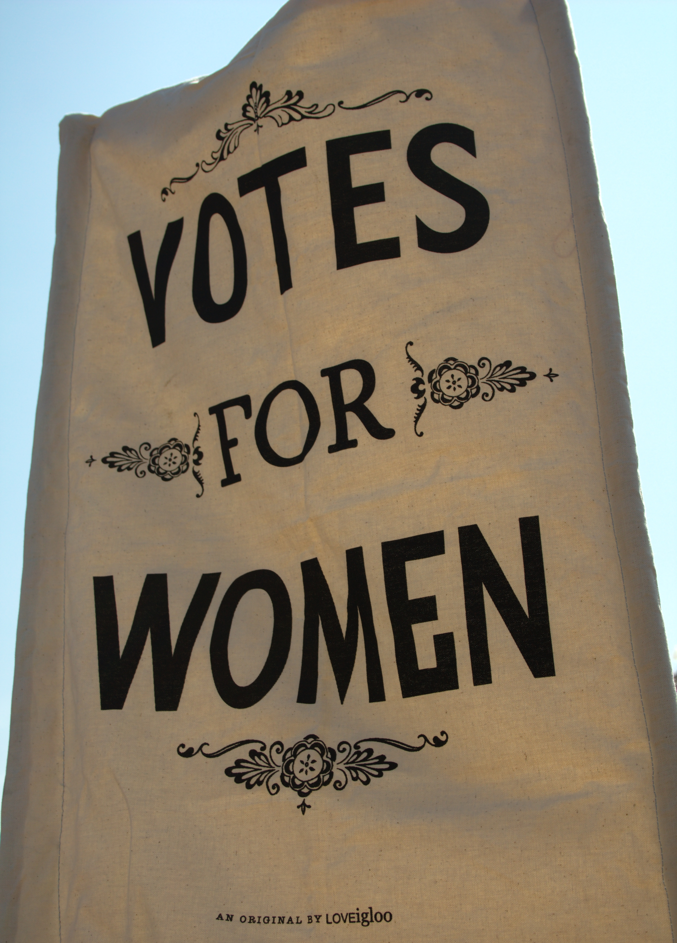 from the Walk for Women as week long walk from Brighton to London in July 2013 to commemorate the 1913 Women's Suffrage Pilgrimage and also to raise awareness of contemporary women's issues